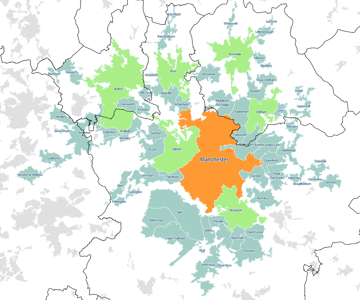 The Greater Manchester Built-Up Area as at the 2011 Census, with overlay of the 2007 Travel to Work Areas. Manchester is highlighted in orange, and towns with local authority districts named after them highlighted in green.